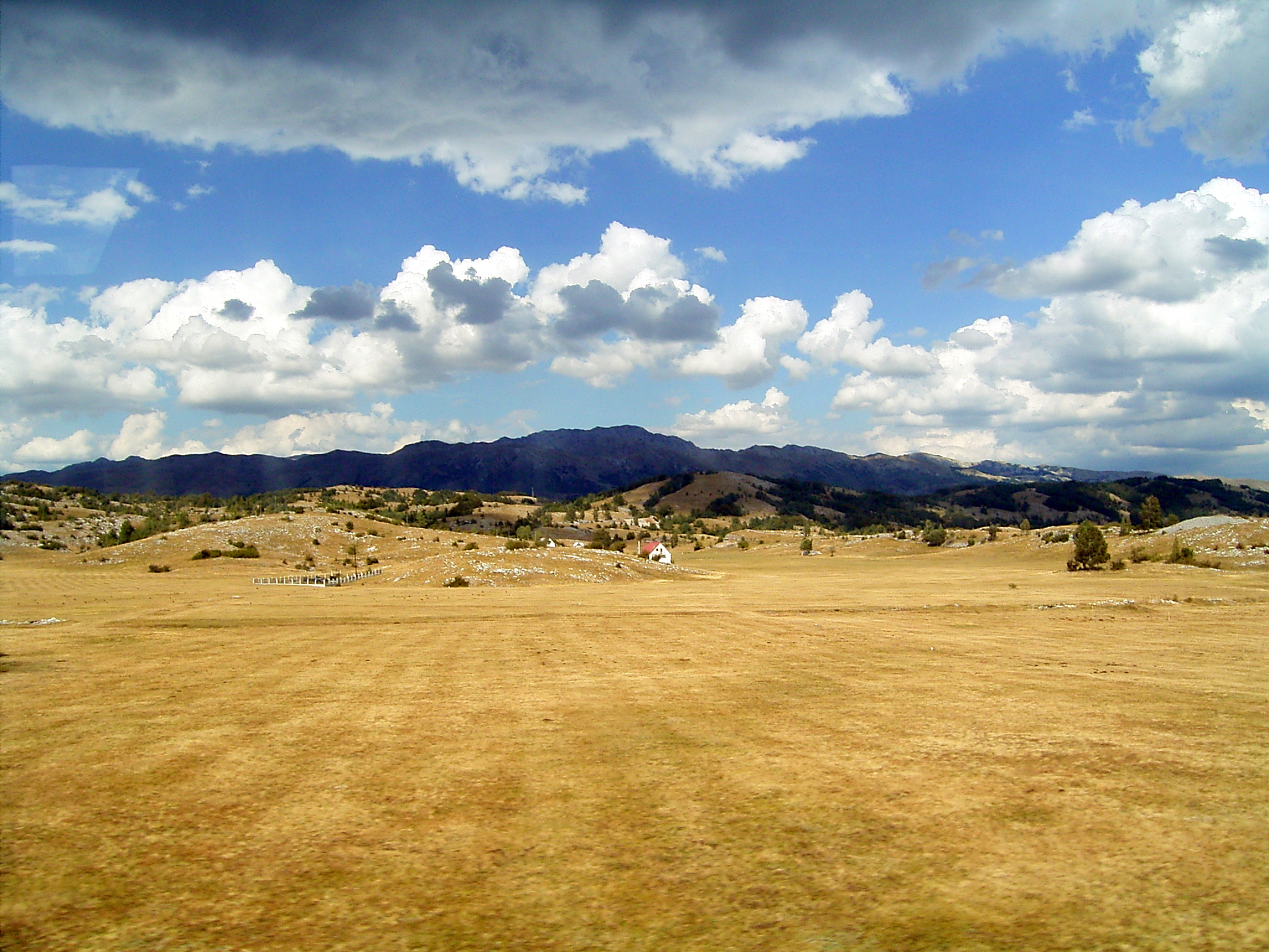 Durmitor Massif Montenegro seen from West